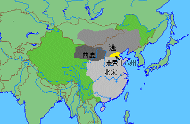 The Song Dynasty, Liao Dynasty, and Western Xia Dynasty of China in the Middle Ages.